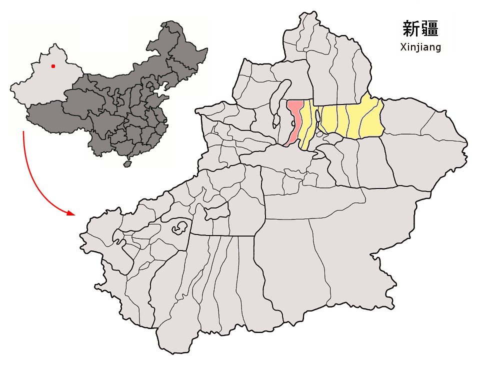 Location of Manas County (pink) and Changji Prefecture (yellow) within Xinjiang autonomous region of China Map drawn in september 2007 using various sources, mainly : Xinjiang Uygur autonomous region administrative regions GIS data: 1:1M, County level, 1990 Xinjiang Counties map from